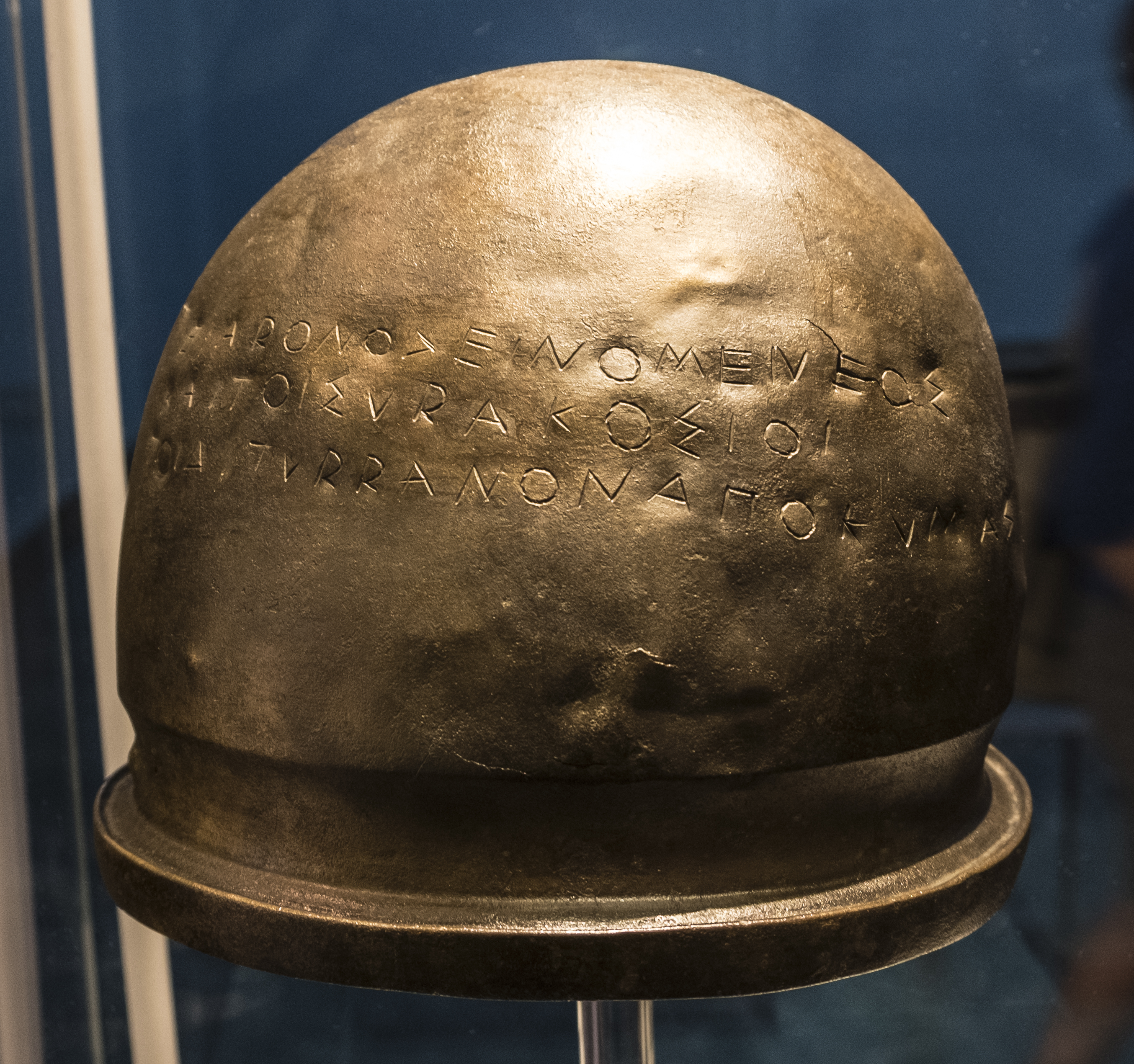 Hiero helmets